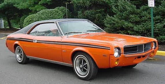 1969 Javelin SST model by American Motors (AMC) - a "pony car". This two-door hardtop is finished in one of the optional mid-year Big Bad colors - in this case Big Bad Orange (BBO) with optional black vinyl covered roof and black side stripes. This car also has the optional "Magnum" styled wheels. Picture taken at AMCRC car show that was held in Somerset, New Jersey